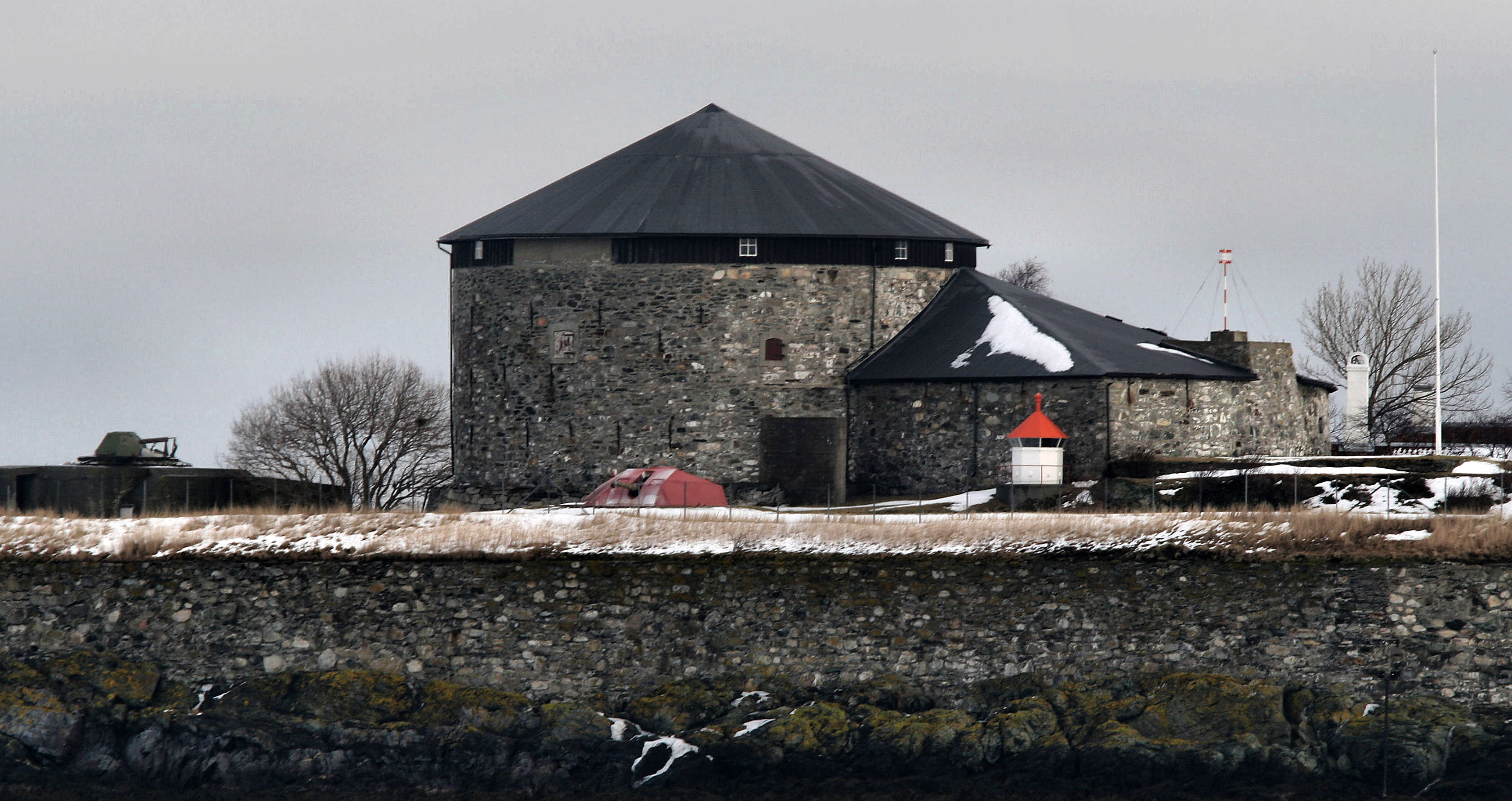 Improved version of Image:Munkholmen2.jpg. Enhanced contrast and sharpened the image. Original description: Munkholmen fortress, Trondheim, Norway